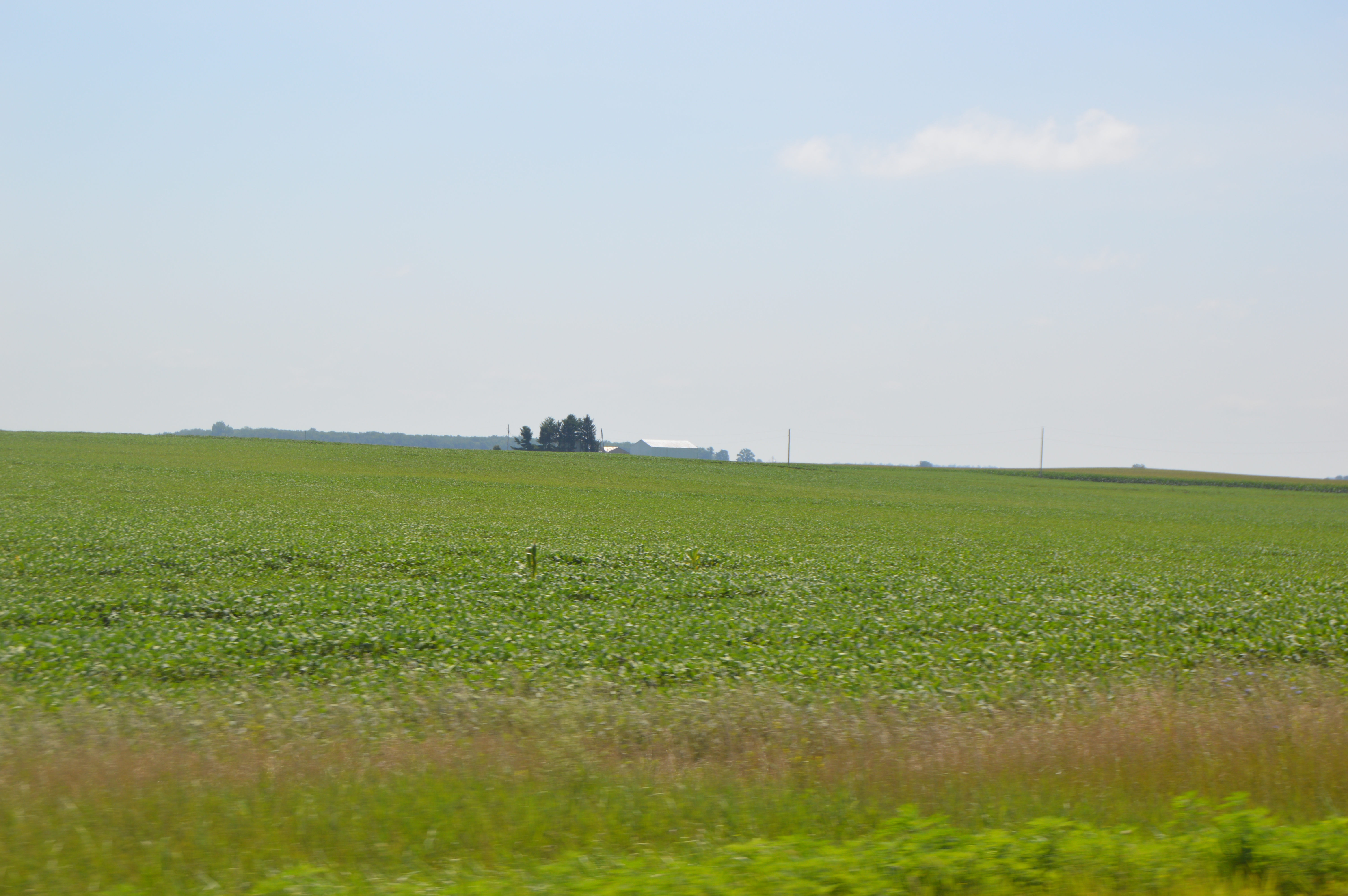 Fields in northern Stokes Township, Madison County, Ohio, United States, seen looking southeast from State Route 41 just north of Harrold Road.